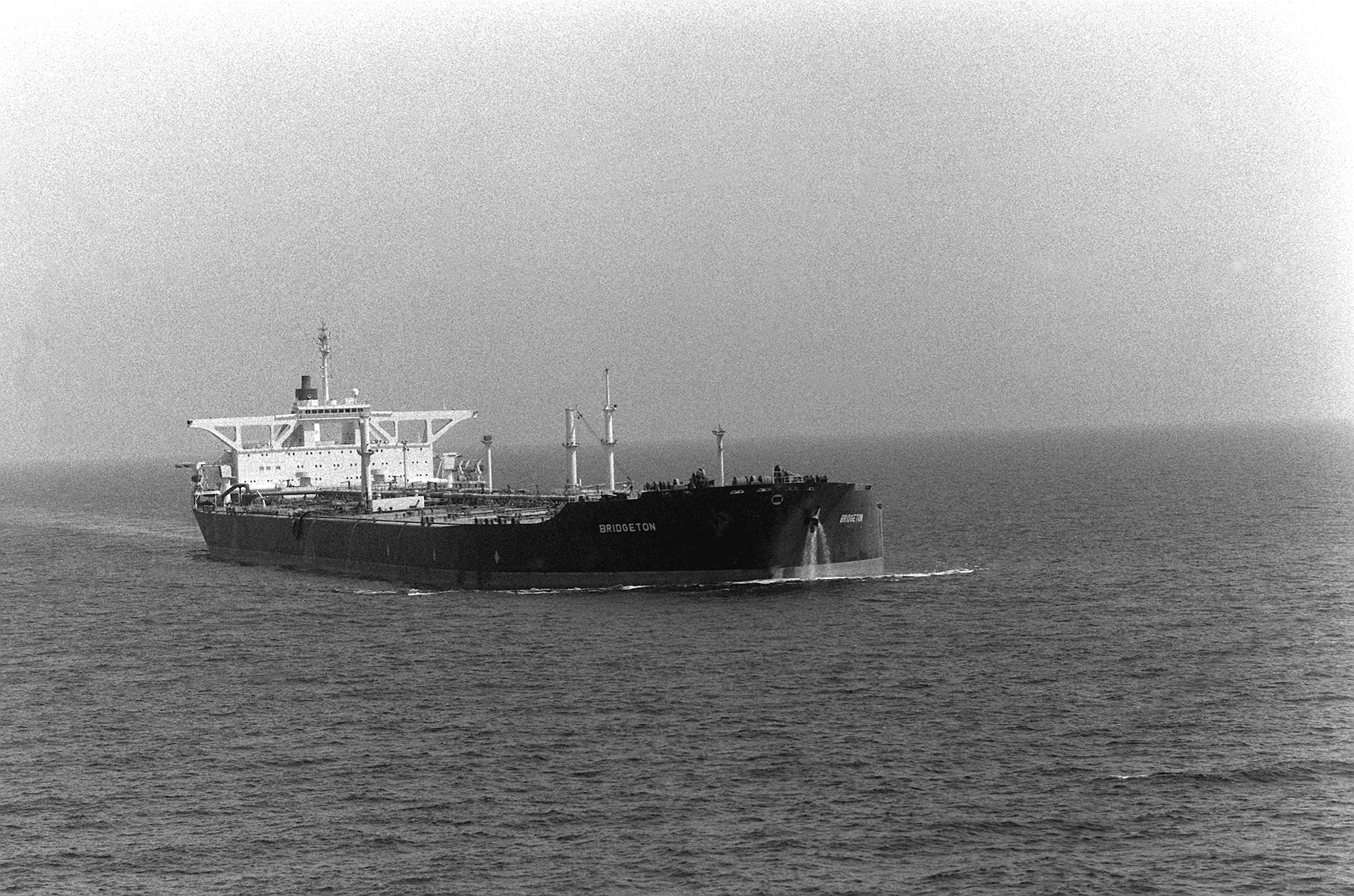 A starboard bow view of the reflagged Kuawaiti supertanker BRIDGETON underway. Camera Operator: PH3 HENRY CLEVELAND Date Shot: 22 Aug 1987